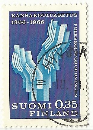 a stamp for 100 years of Finnish primary school system kansakoulu (1966)